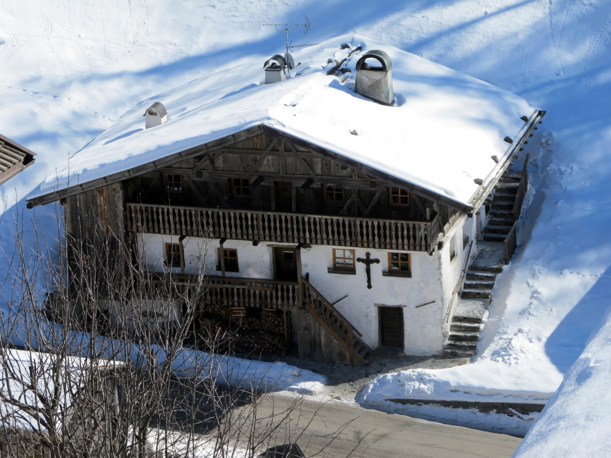 Village Durnholz in Valley Sarntal (Sarntaler Alps): historic Farmhouse